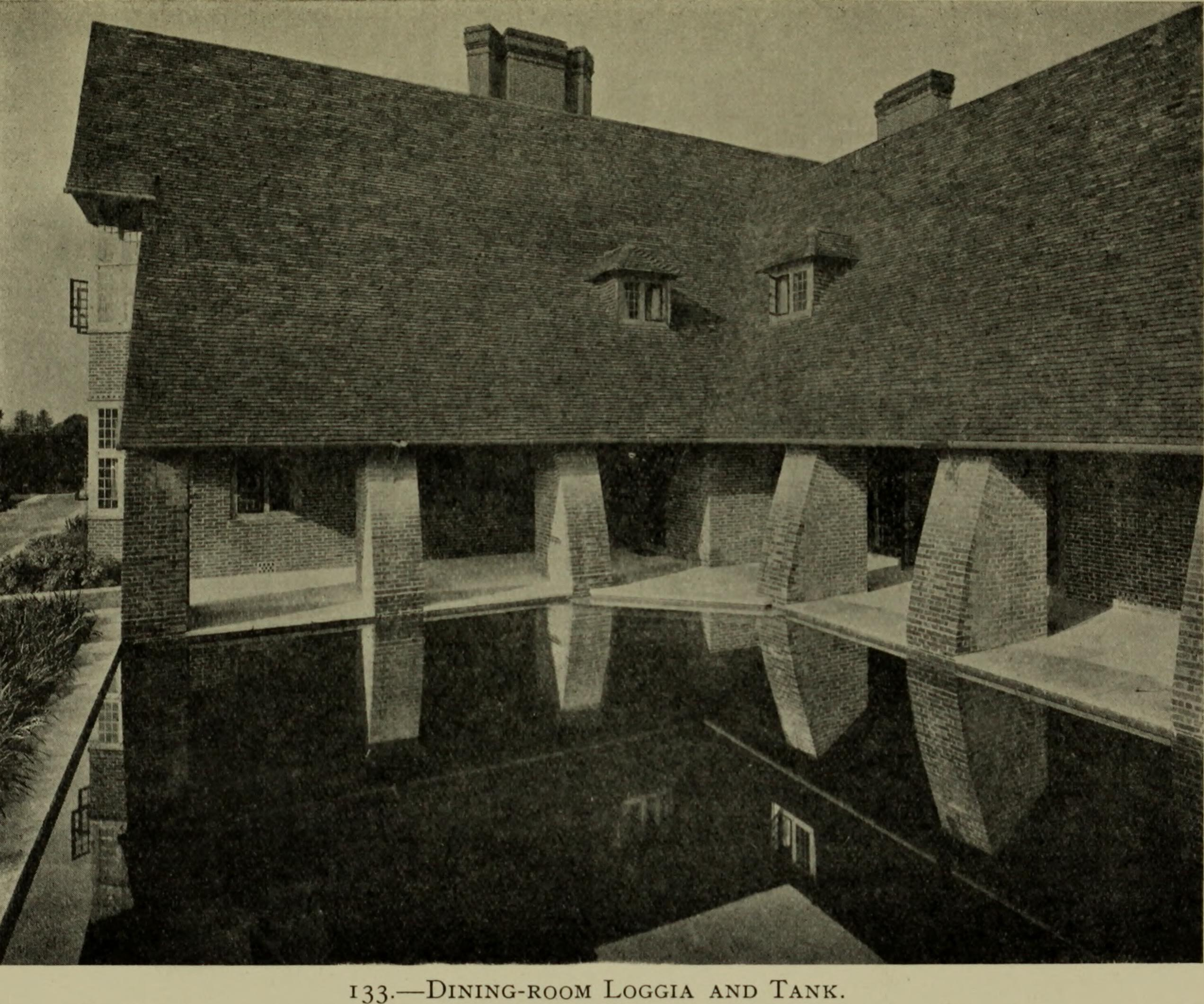 Illustration of Folly Farm, Sulhamstead, Berkshire in "Lutyens houses and gardens" (1921).